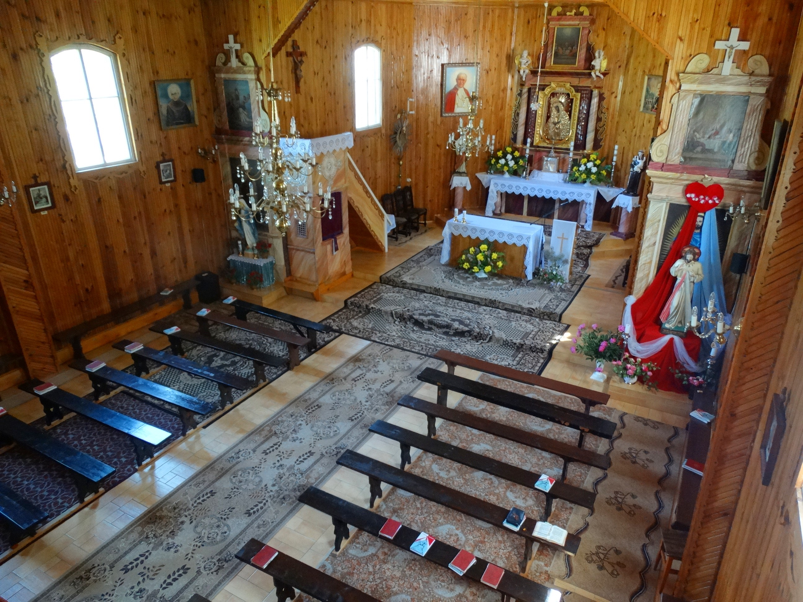 Our Lady of the Gate of Dawn church, Kena, Vilnius District, Lithuania